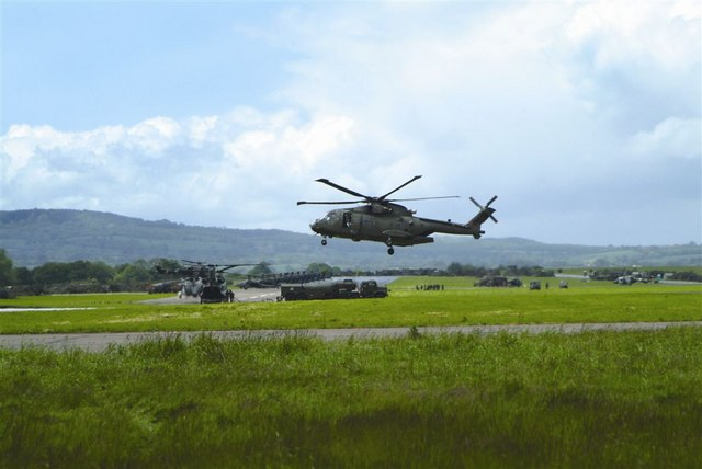 Merryfield airfield A Merlin helicopter prepares to land near Merryfield's east/west runway during a large military exercise. In the middle background is a Chinook helicopter refuelling from a bowser, whilst several Apache attack helicopters are parked in a line at the far end of the runway. The Blackdown Hills form the backdrop to this busy scene.